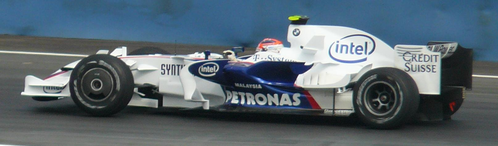 Robert Kubica driving for BMW Sauber at the 2008 European Grand Prix.